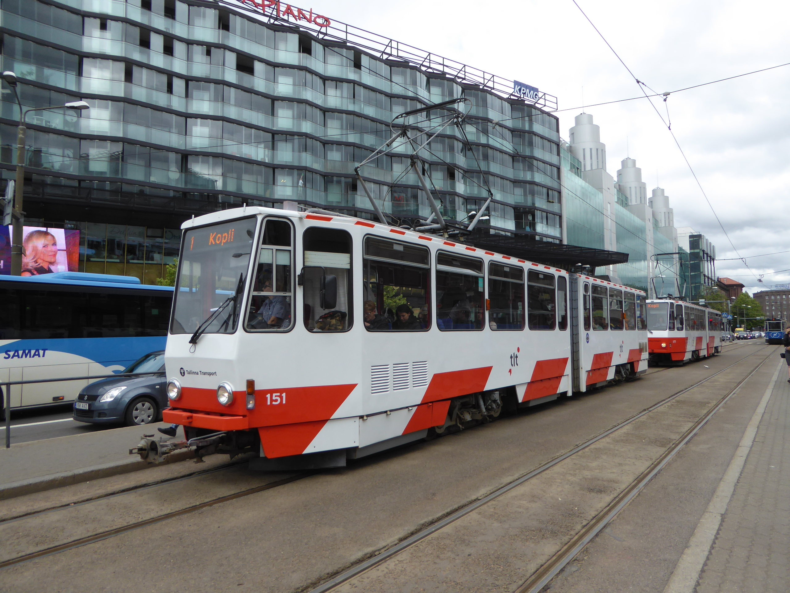 TLT tram line 1 at Hobujaama on Narva maantee in Tallinn.